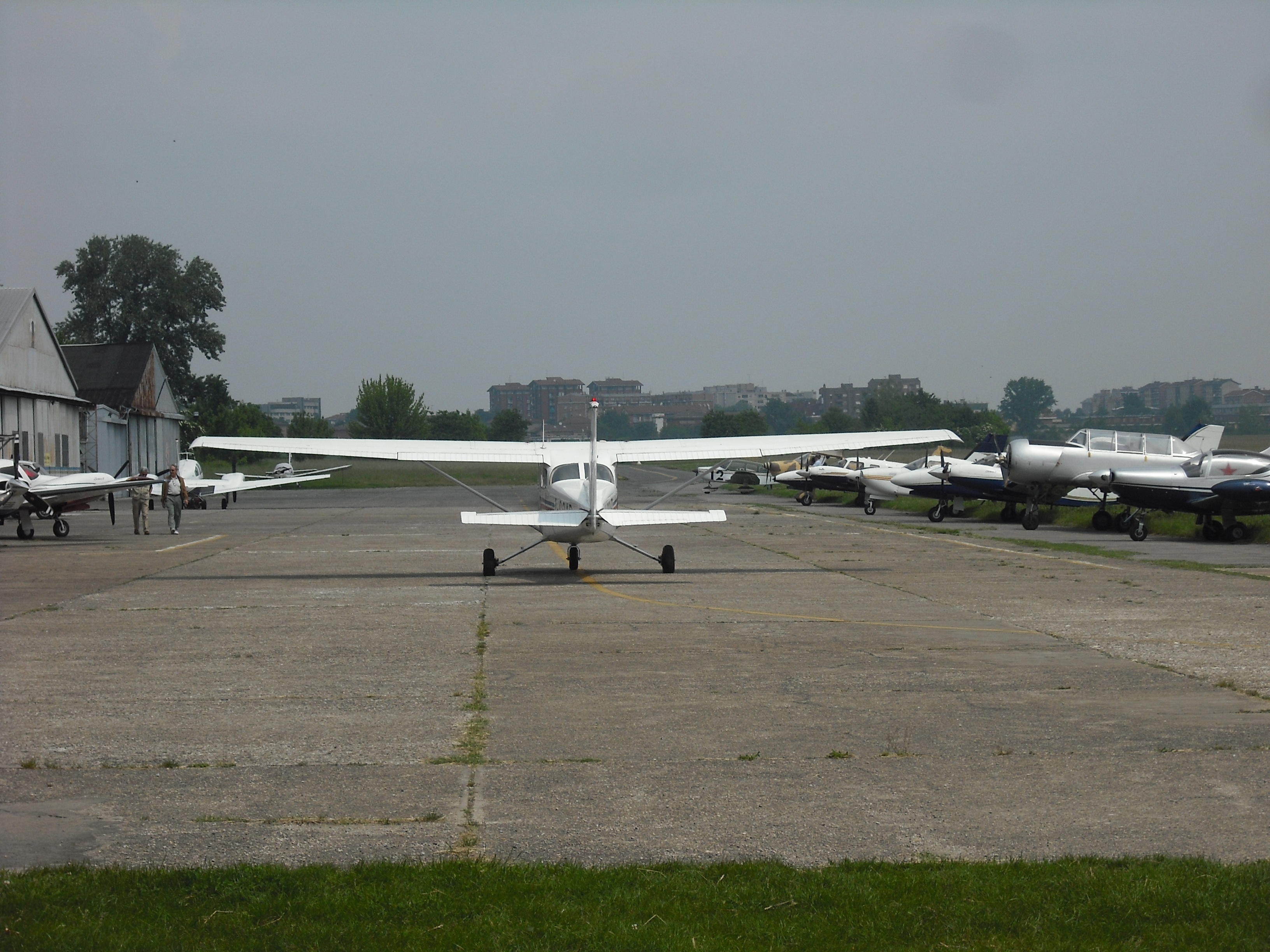 Cessna 172 taxiing at Milano-Bresso Airport, Milan, Italy